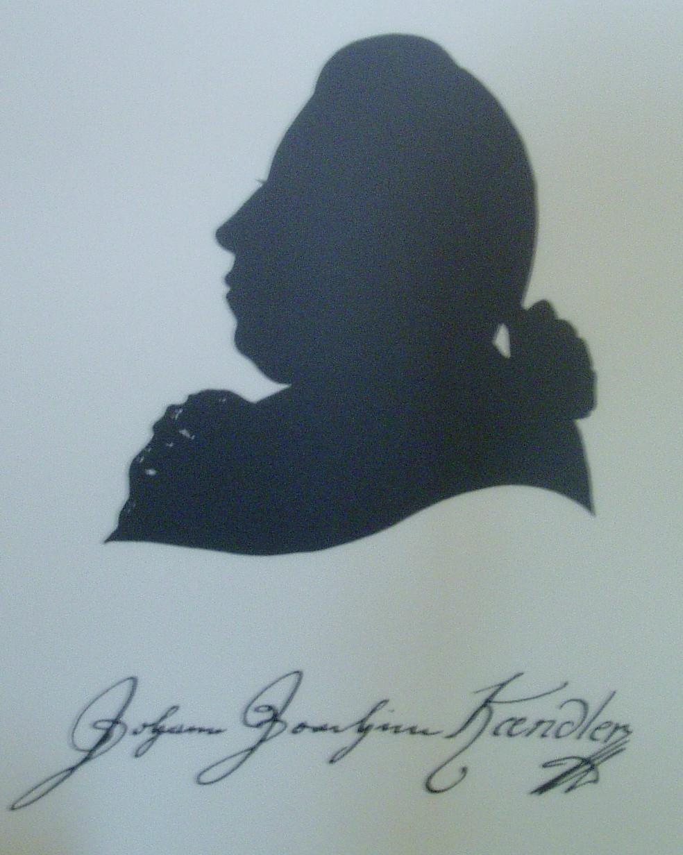 Kaendler.J.J.